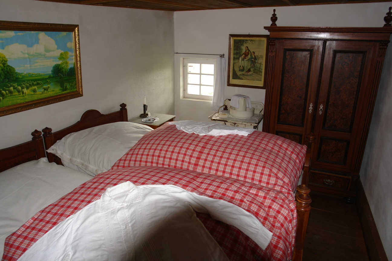 Bed room in the Zeeb-house of the local history museum in Tübingen-Unterjesingen (Germany)